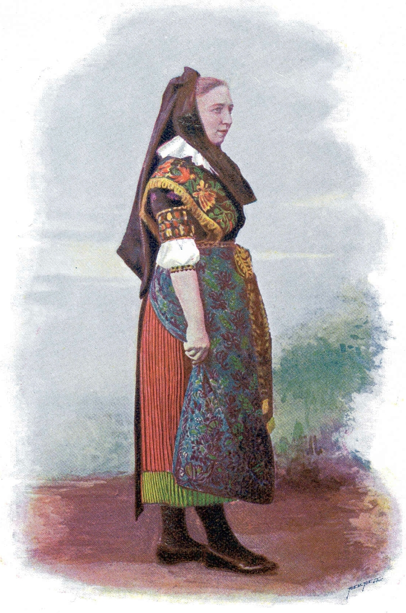 Traditional costume worn by a young woman from Waggum near Brunswick, Germany, approx. around 1900.